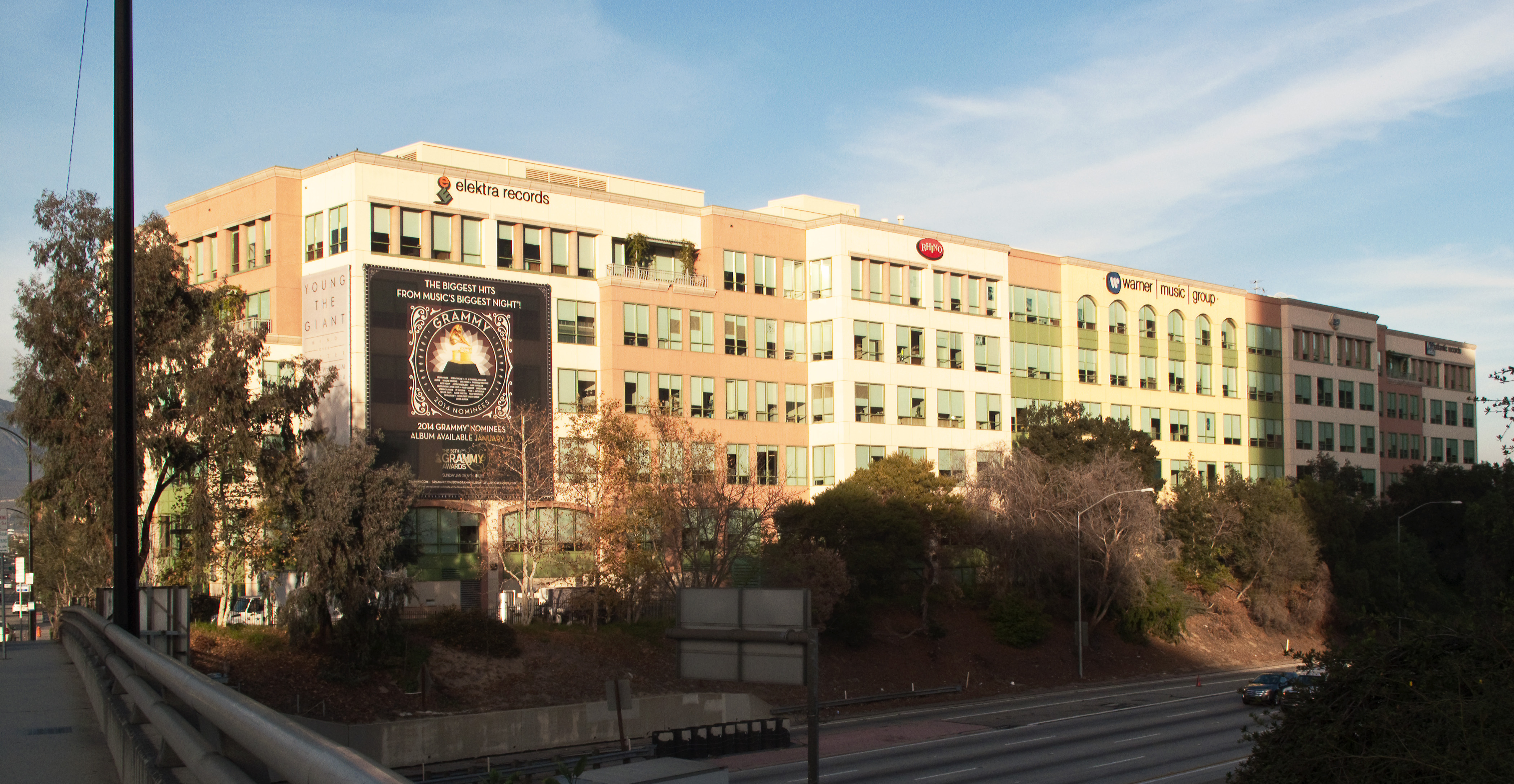 View of Warner Music Group buildings, 3400 W Olive Ave, Burbank, CA 91505